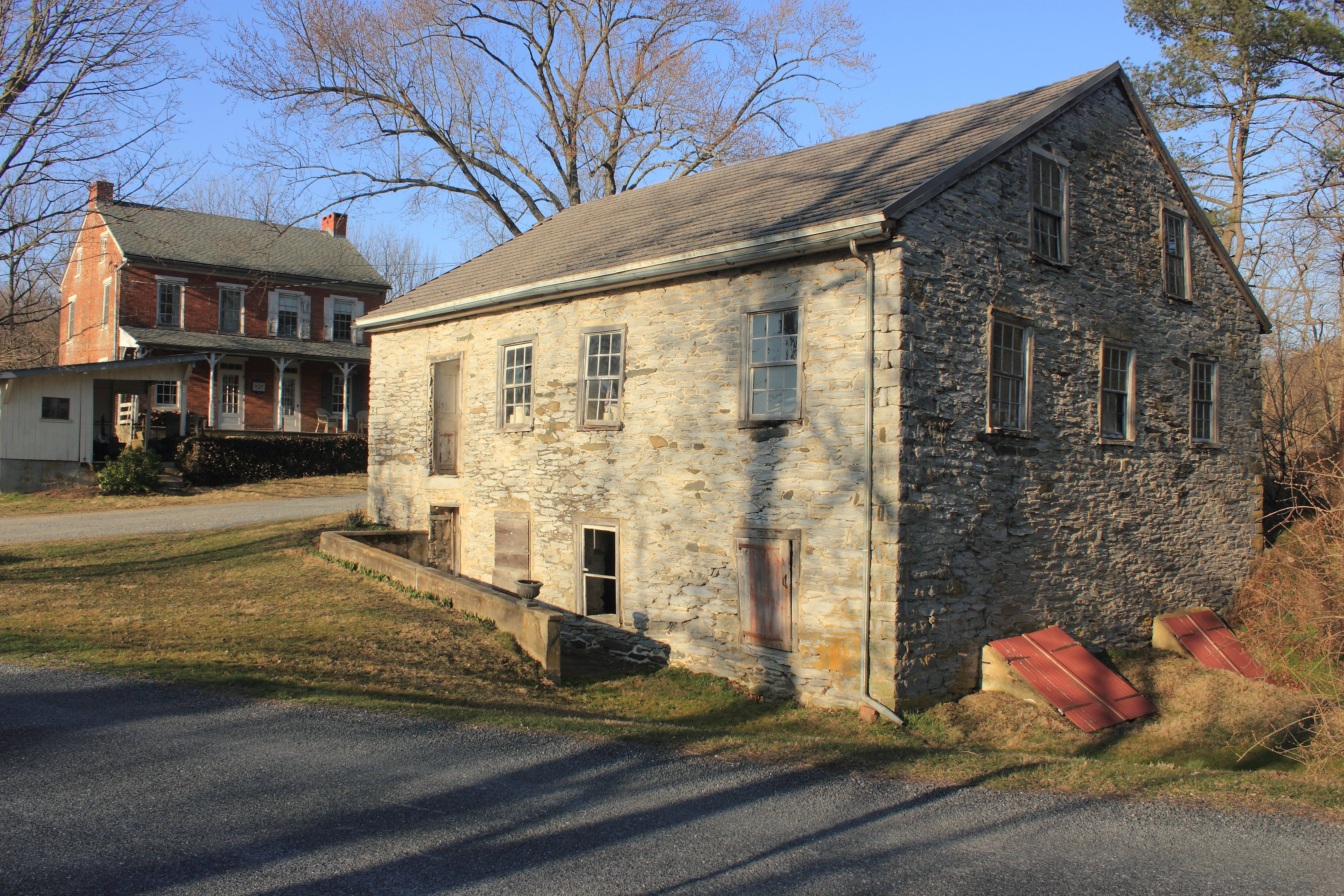 Kutz Mill near Kutztown with farmhouse